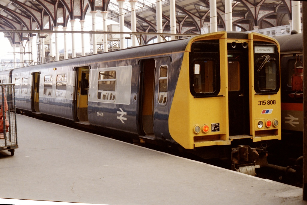 Class 315 EMU no 315-808 on the Liverpool Street-Southend Victoria line at Liverpool Steet station.